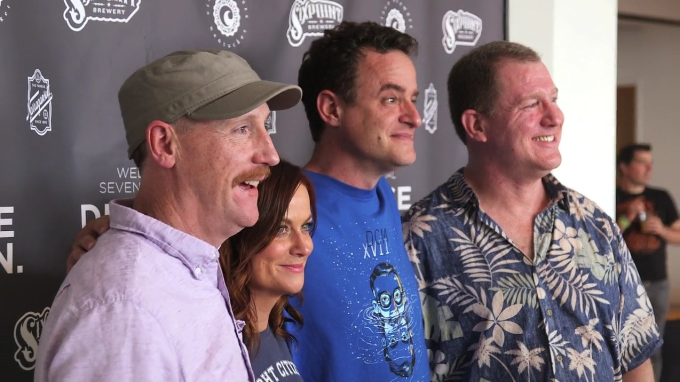 Comedians Matt Walsh, Amy Poehler, Matt Besser, and Ian Roberts at the 17th annual Del Close Marathon in New York City